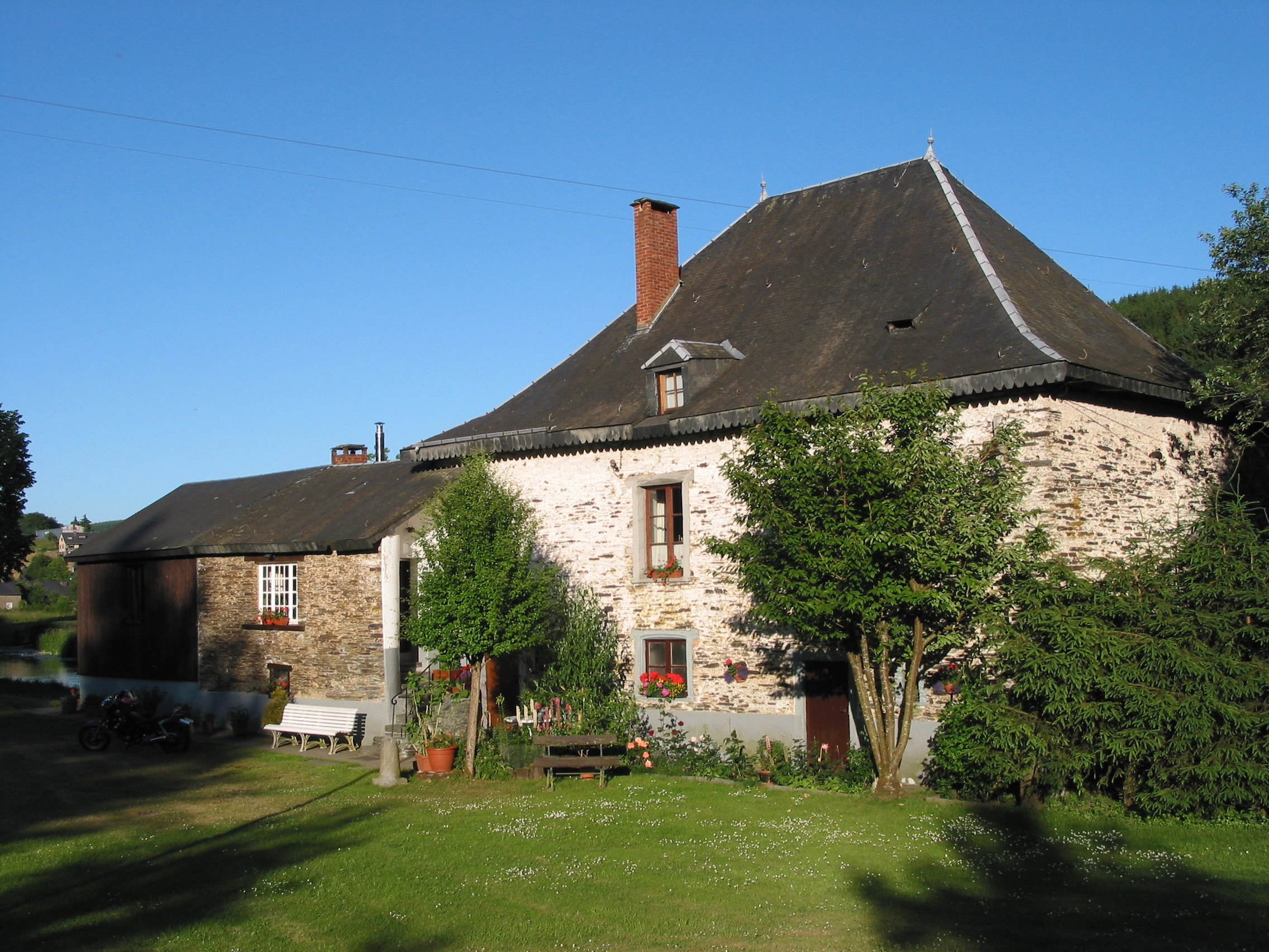 Cugnon (Belgium), the old water mill on the Semois river (1695).